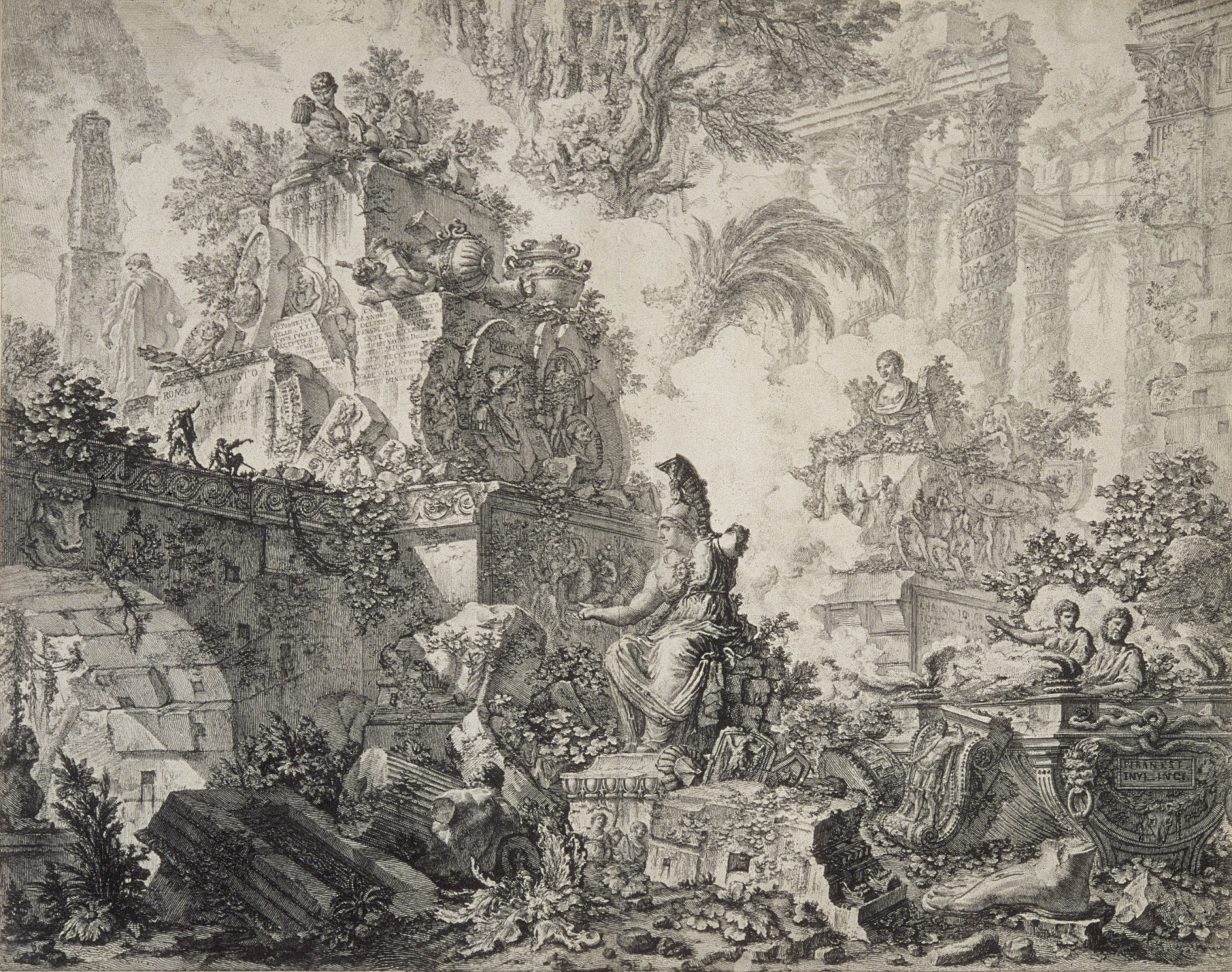 Italy, circa 1775 Alternate Title: Veduta delle Terme di Tito. Series: Vedute di Roma, plate 123 Prints; etchings Etching Gift of Ebria Feinblatt (M.91.31) Prints and Drawings